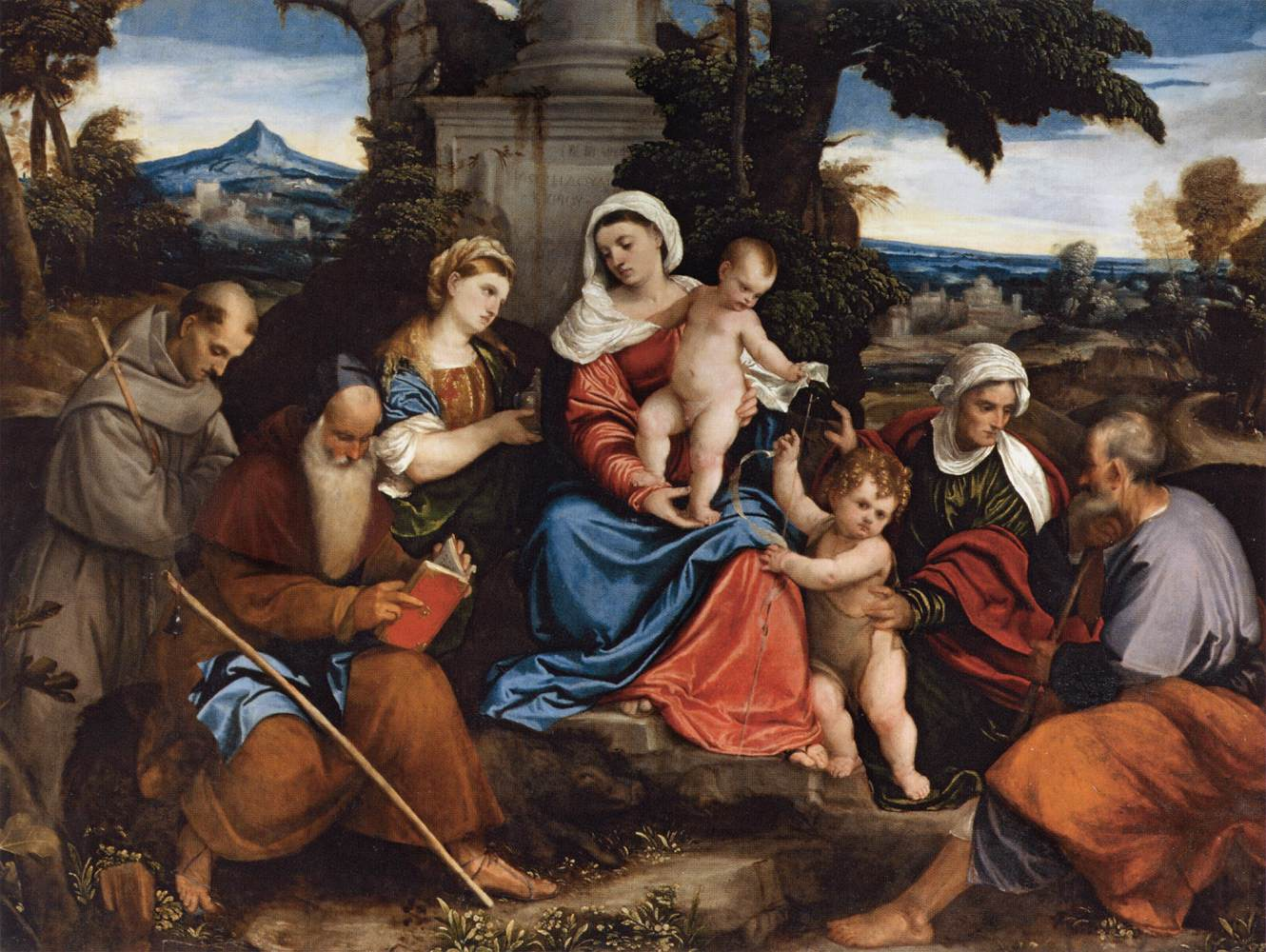 Sts Francis, Anthony, Magdalen, John the Baptist, and Elizabeth